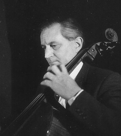 Johan de Nobel